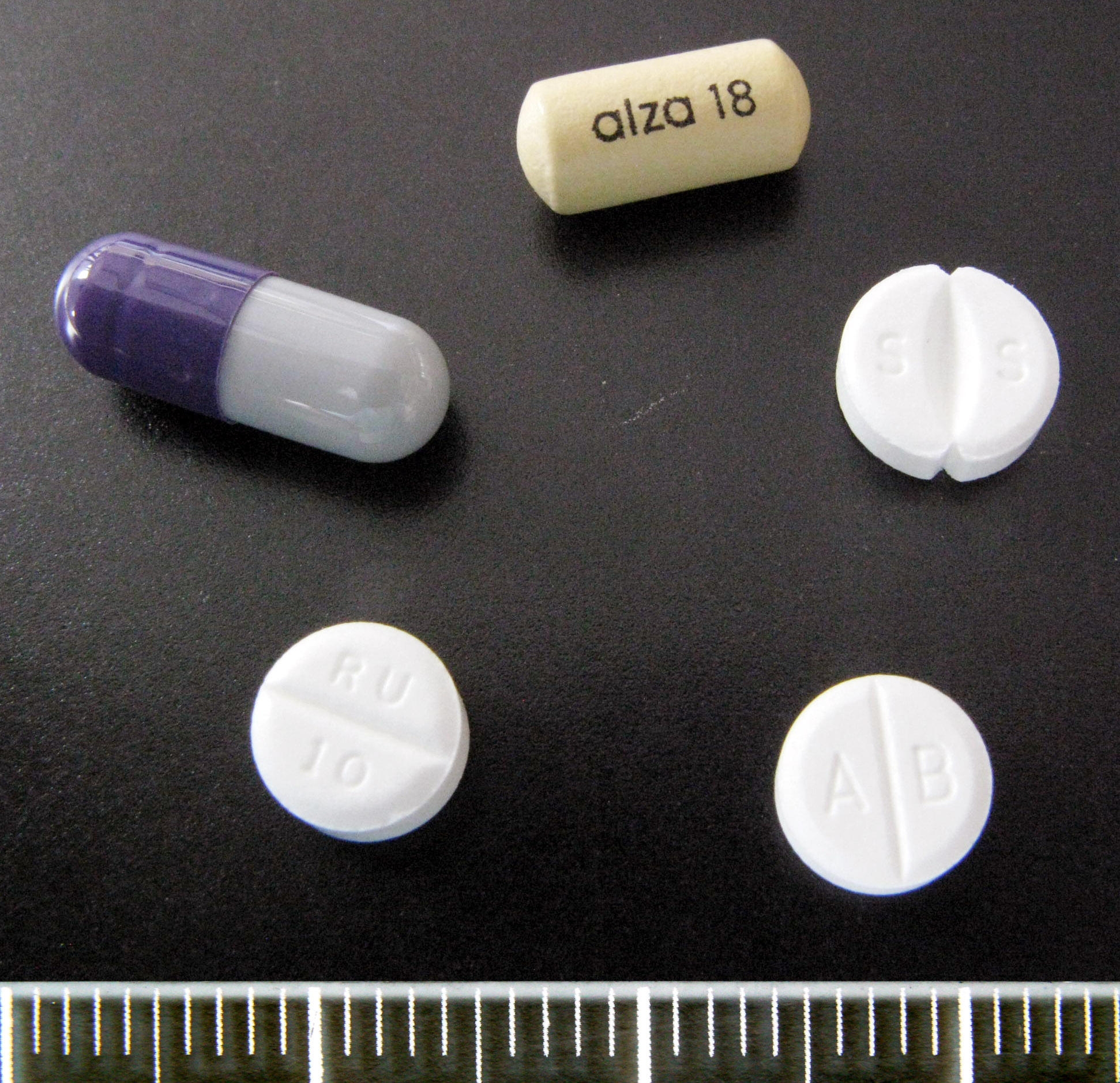 Various formulations of methylphenidate marketed in Germany. Clockwise from top: Concerta 18 mg (osmotic pump), Medikinet 5 mg, Methylphenidat TAD 10 mg, Ritalin 10 mg (immediate release tablets), Medikinet retard 30 mg (modified release capsule).